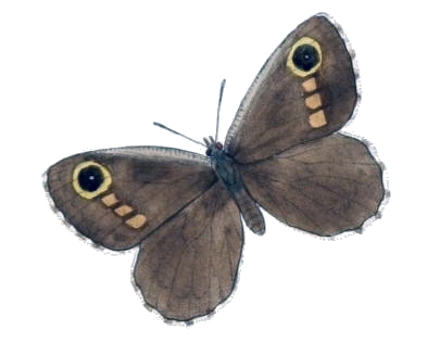 Karanasa pimpla